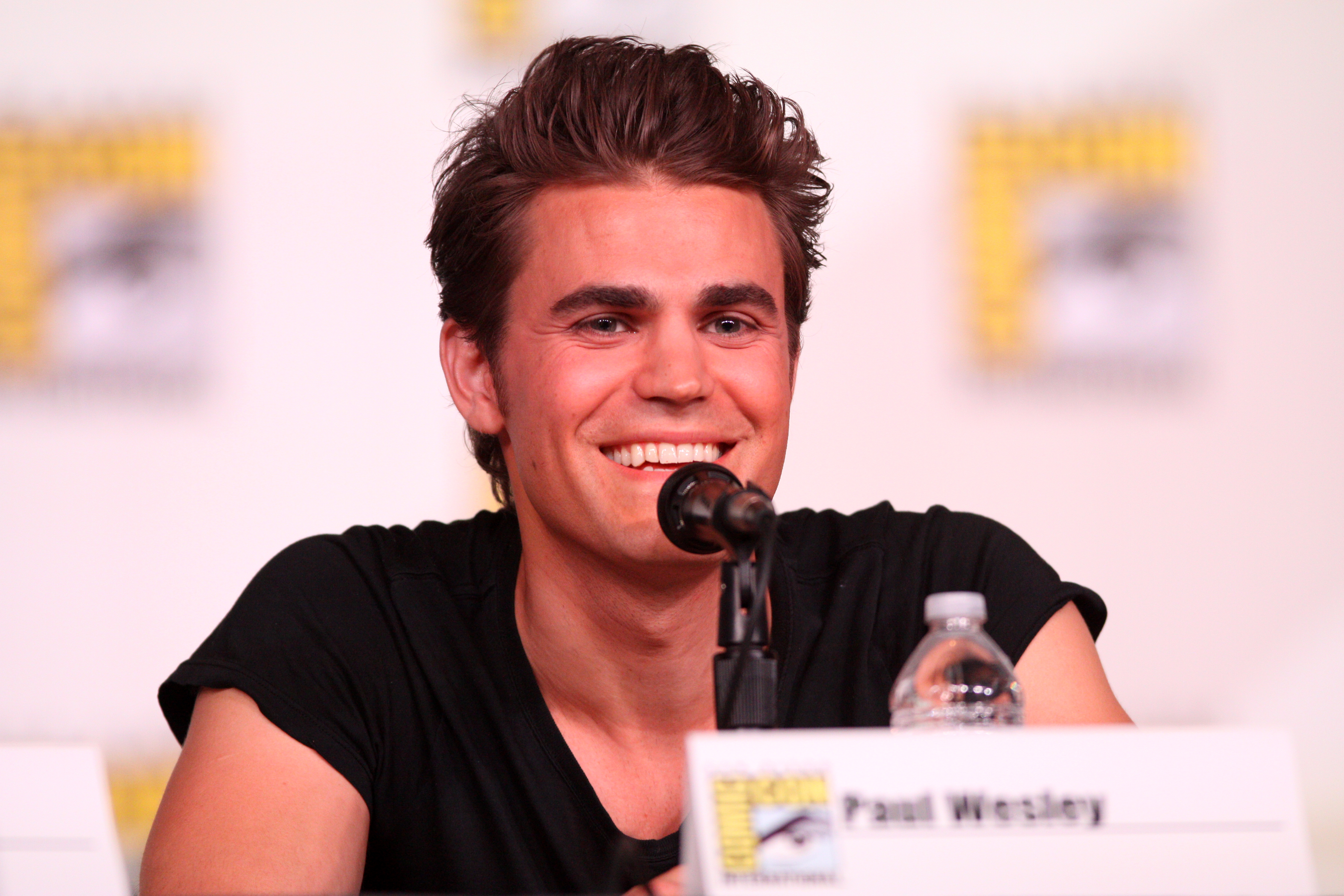 Paul Wesley speaking at the 2012 San Diego Comic-Con International in San Diego, California.